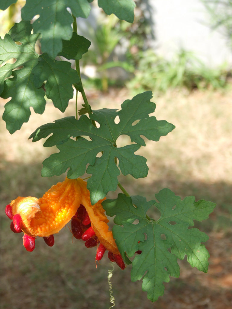 Momordica charantia, Bitter Melon